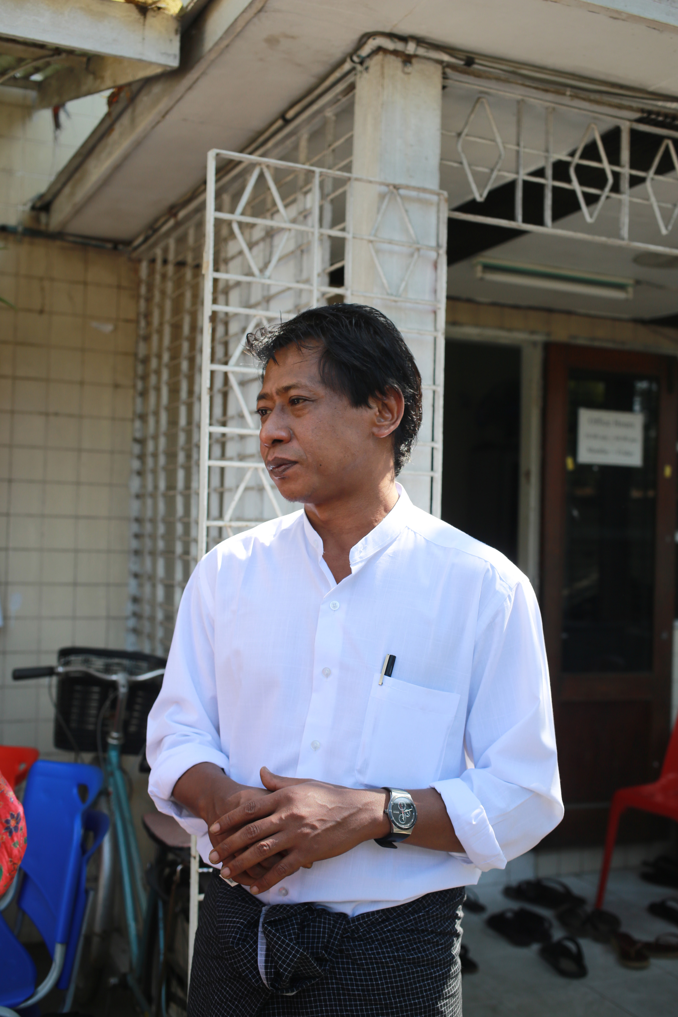 Htay Kywe stands infront of 88 Generation Students' Office in Yangon, Myanmar on 19 January 2013.